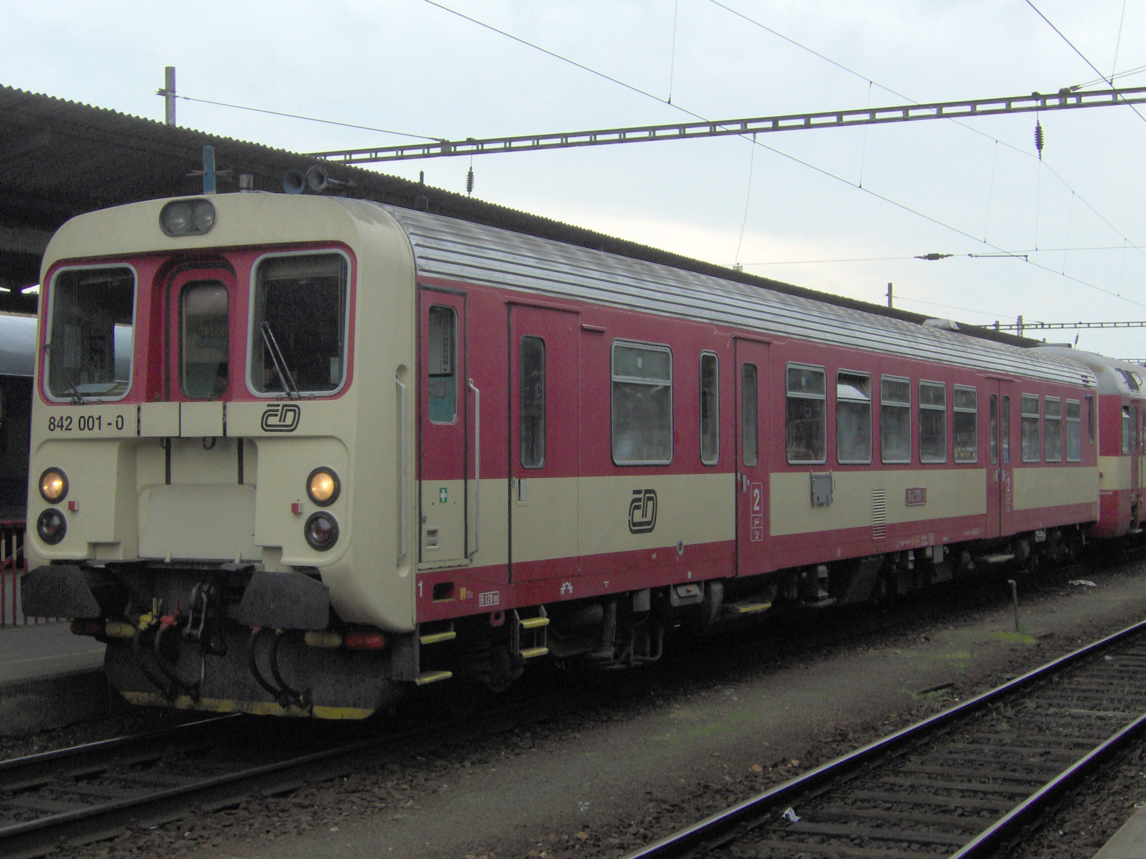 Diesel multiple unit 842.001, Brno main station, Czech Republic